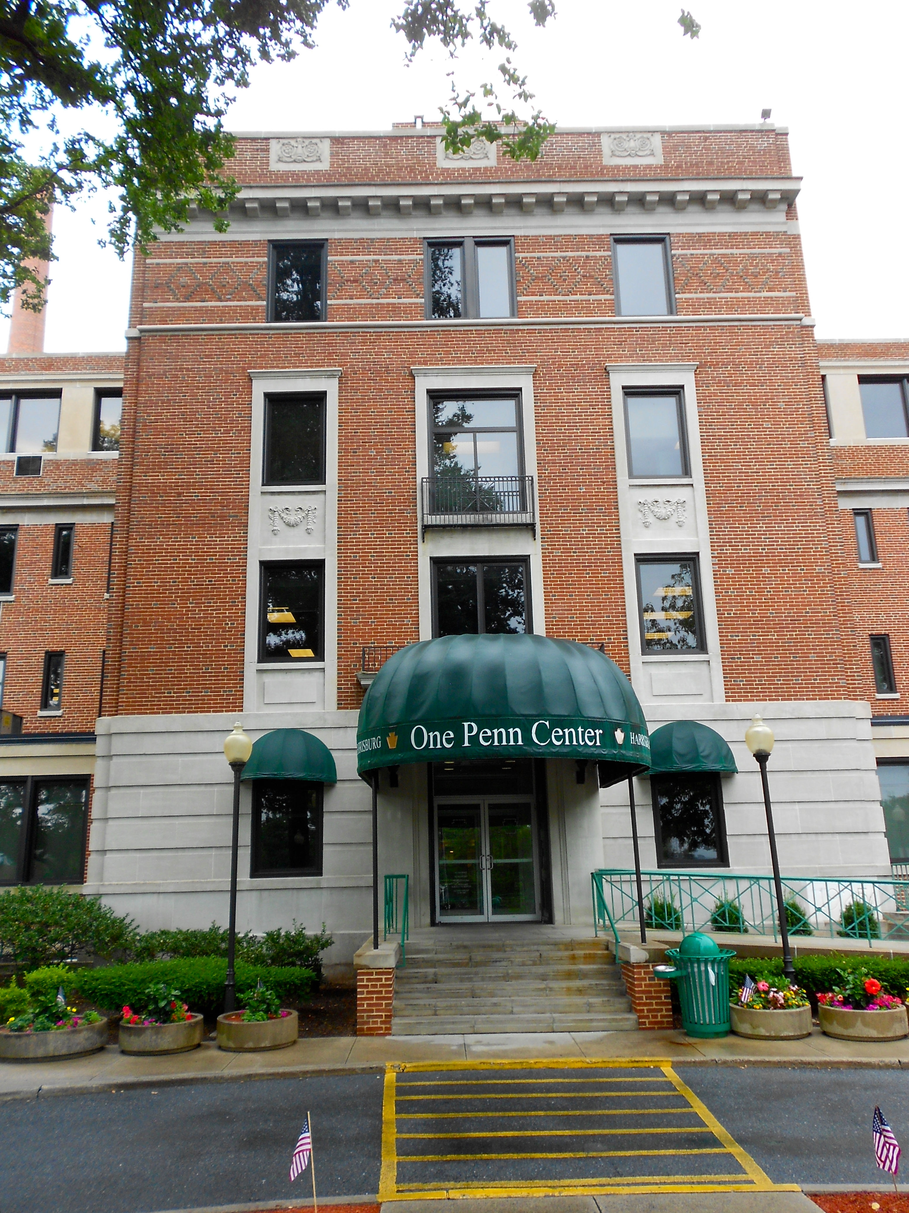 Harrisburg Polyclinic Hospital, listed on the NRHP on November 12, 2004. Located at 2601 North 3rd Street, Harrisburg, Dauphin County, Pennsylvania